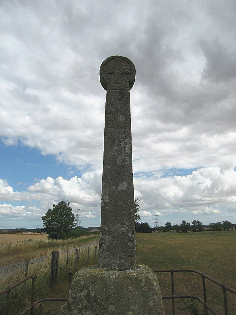 Crosshill Cross. The cross dates from the twelfth century, and is thought to be a memorial stone erected to mark the grave of an important person. The cross is just under 3m high, and is inserted into a large block of stone that is itself over 1m in height. The shaft tapers towards the top, terminating in a disc on which a cross is carved on either side. Each side of the shaft bears carved decoration. A naked man and greyhound on the east side, and a coat of arms on the west, south and possibly the north side. On the west and north sides, there are also depictions of a carved cross. A sword is depicted on the south side. The symbols carved on this cross suggest that the person whom it commemorates may have been to the Crusades.